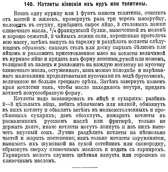 Recipe of "Kiev cutlets made from chicken or veal" from the Cookery Digest (1915), a collection of recipes which were published in the Moscow Journal for Housewives in 1913-1914.